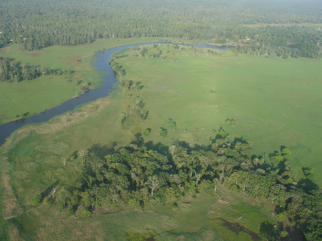 Landing in TransFly, near Bensbach airfield, Papua New Guinea